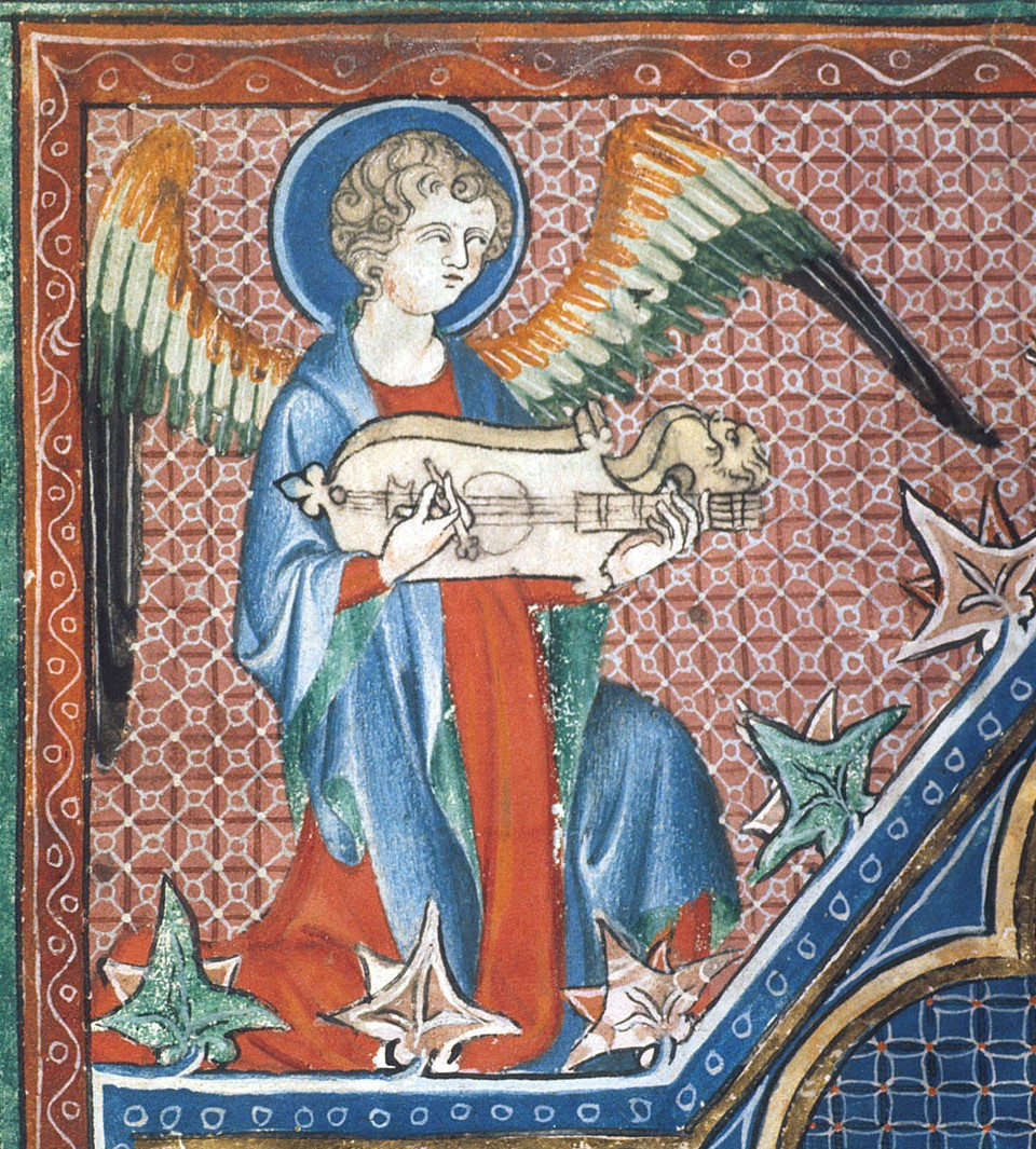 Citole, medieval musical instrument from folio 134v of Arundel 83. References Robert De Lisle (circa 1310) "Psalter (the 'De Lisle Psalter'; 'Arundel 83 II')" in Arundel 83 (manuscript), Catalogue of Illuminated Manuscripts, British Library, pp. 117–135